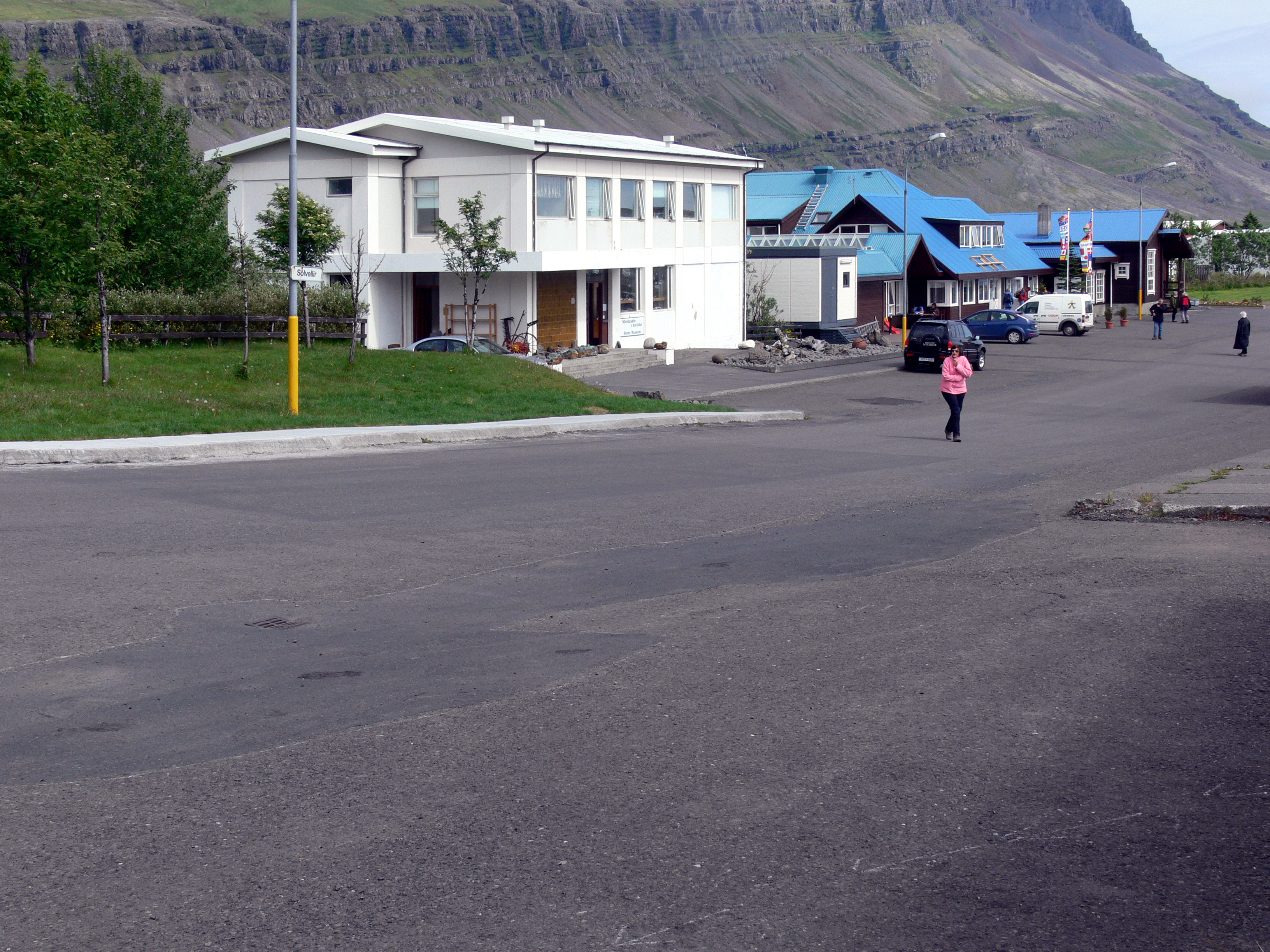 The museum exhibits a large collection of stones.